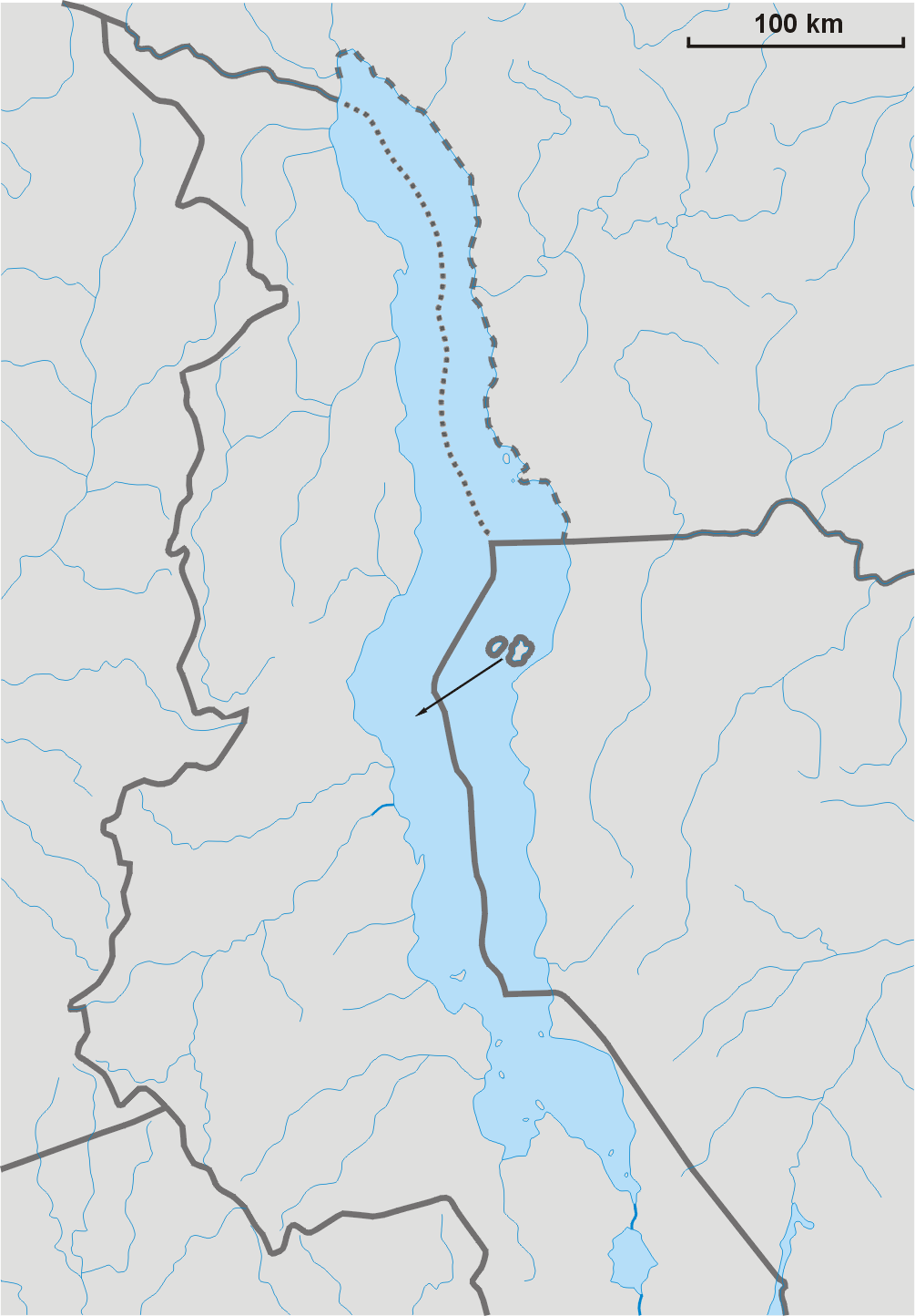 Map of Lake Niassa showing current Malawi border (dashed line) and Tanzania's border claim (dotted line)